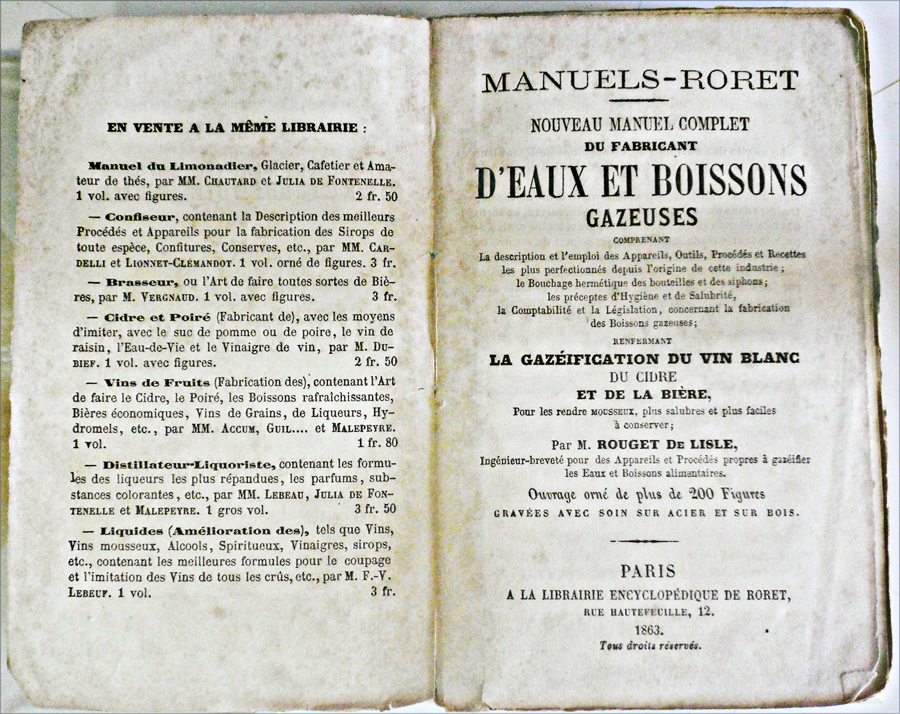 Book Roret about carbonated water, Gourmet Museum and Library, Hermalle-sous-Huy, Belgium